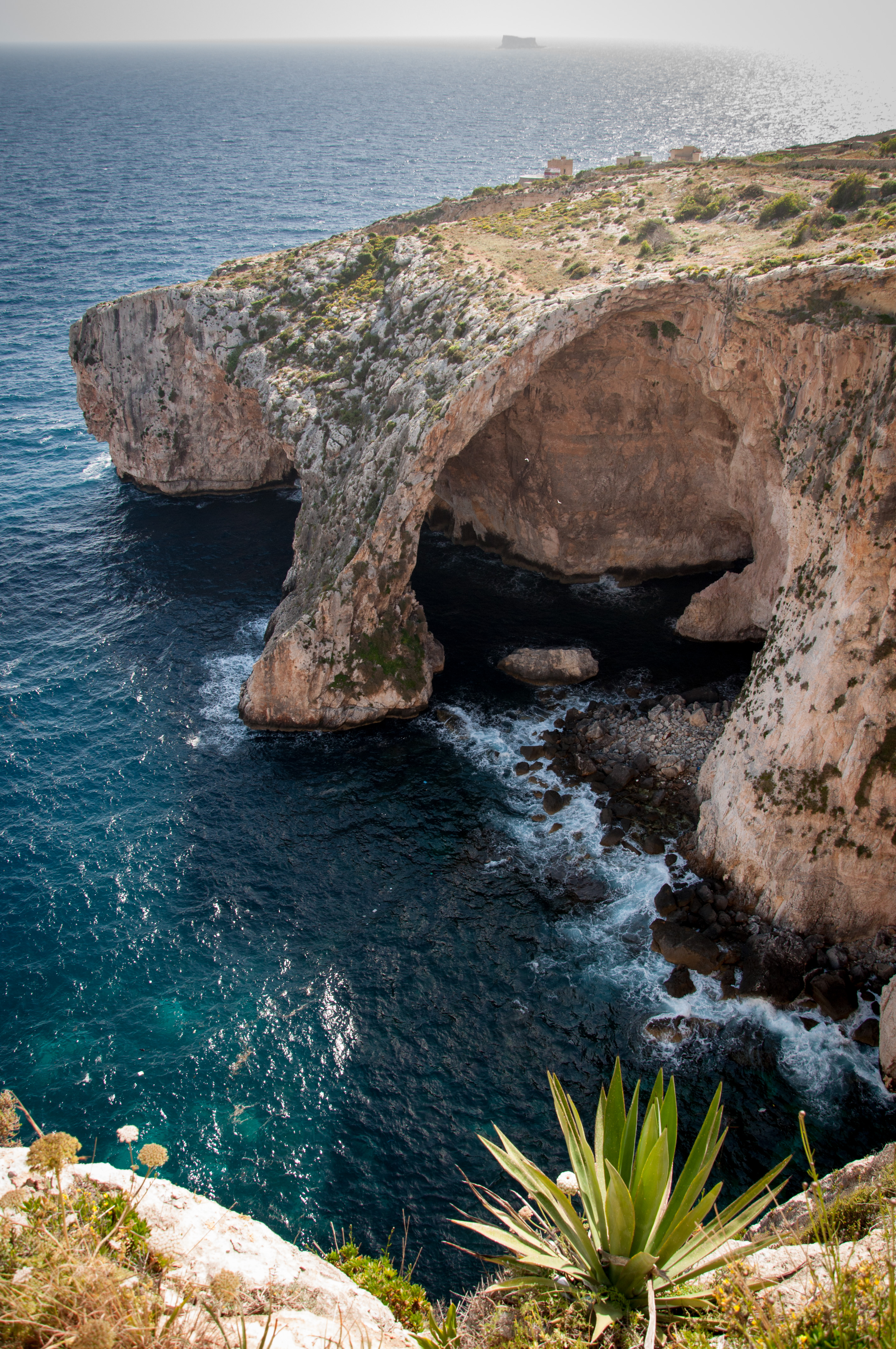 Malta, Blue Cave